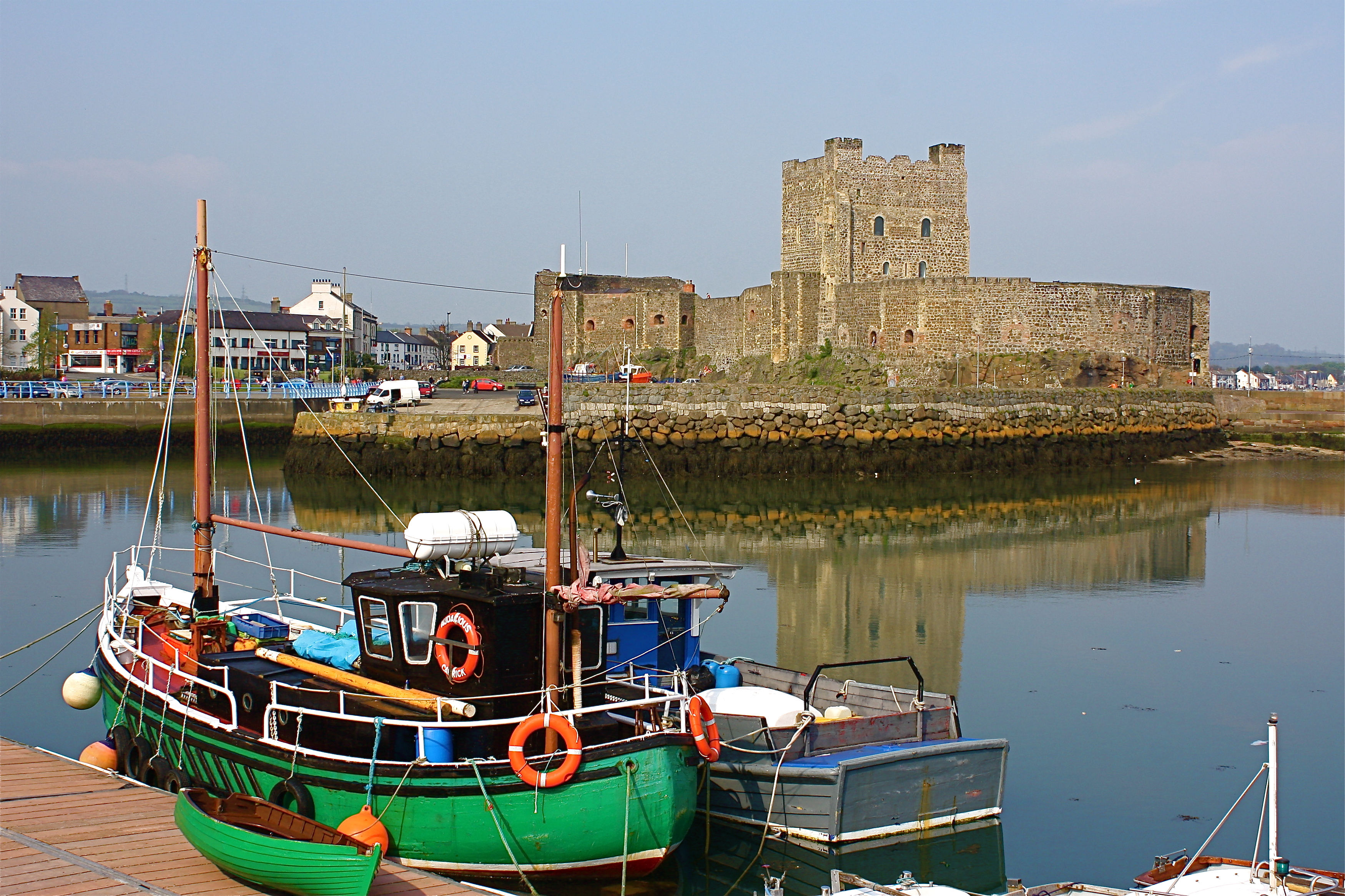 Carrickfergus Harbour and Castle.